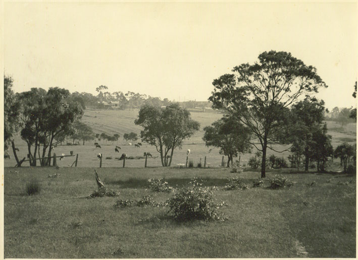 1939 taken from Myrtle Grove, Laburnum towards Middleborough Road and Box Hill High School